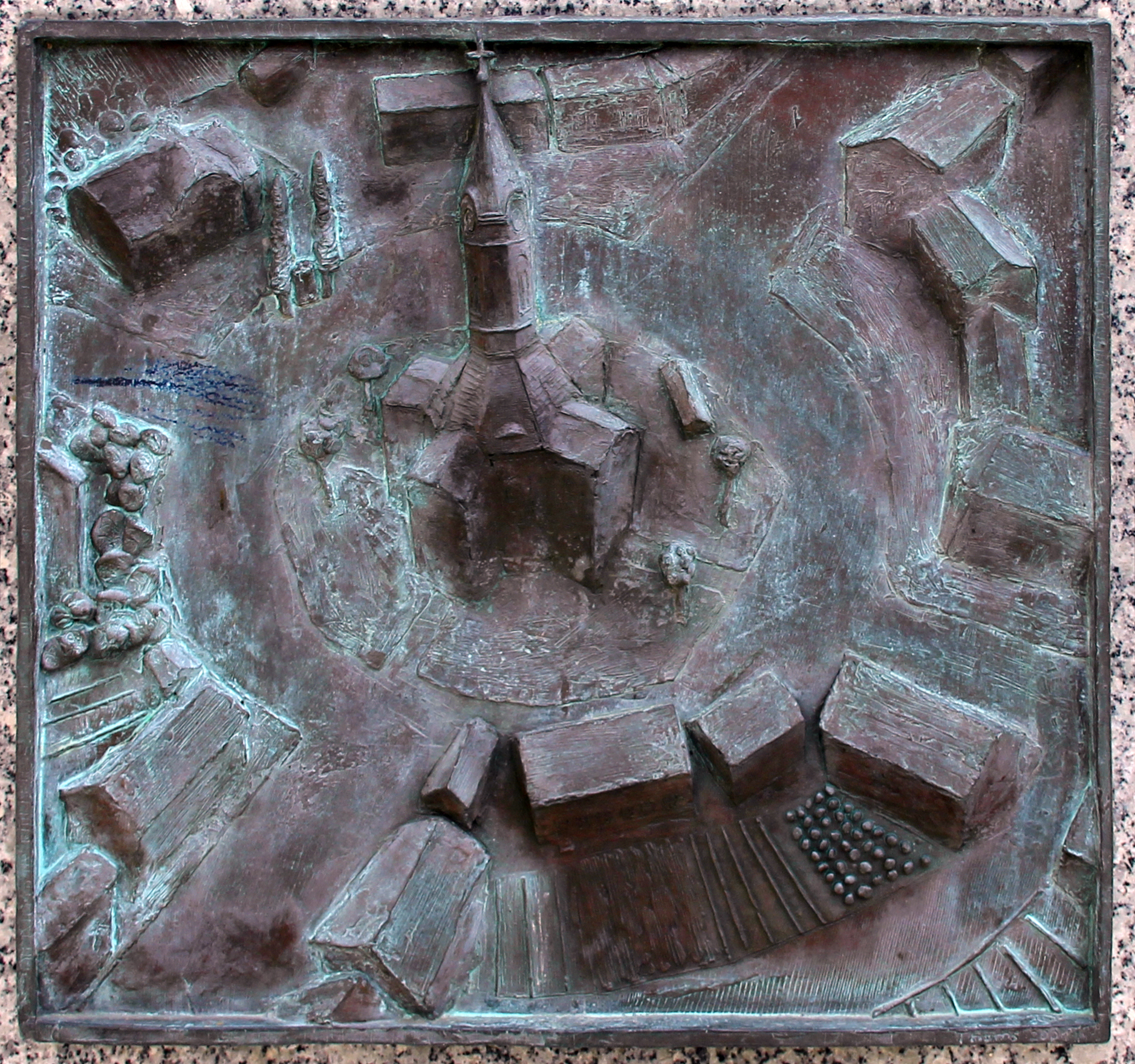 Memorial plaque, Golzow, Genschmarer Straße, Golzow (Oderbruch), Germany